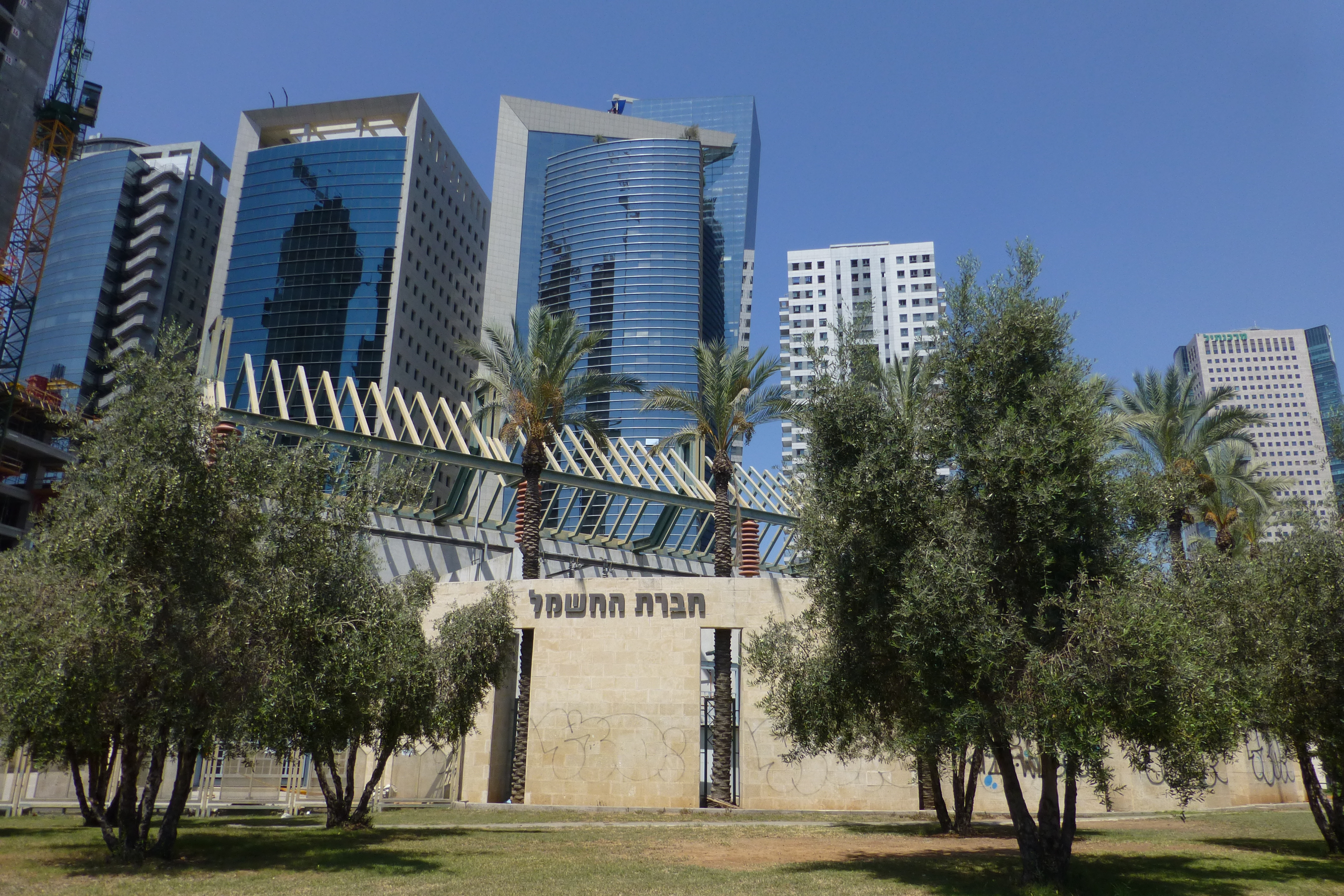 Tel Aviv-Yafo